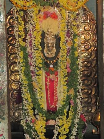 This is the photo of the Deity of Sree Janardana Lakshminarayana Temple of kalagaru located in North Canara District of Karnataka of India.